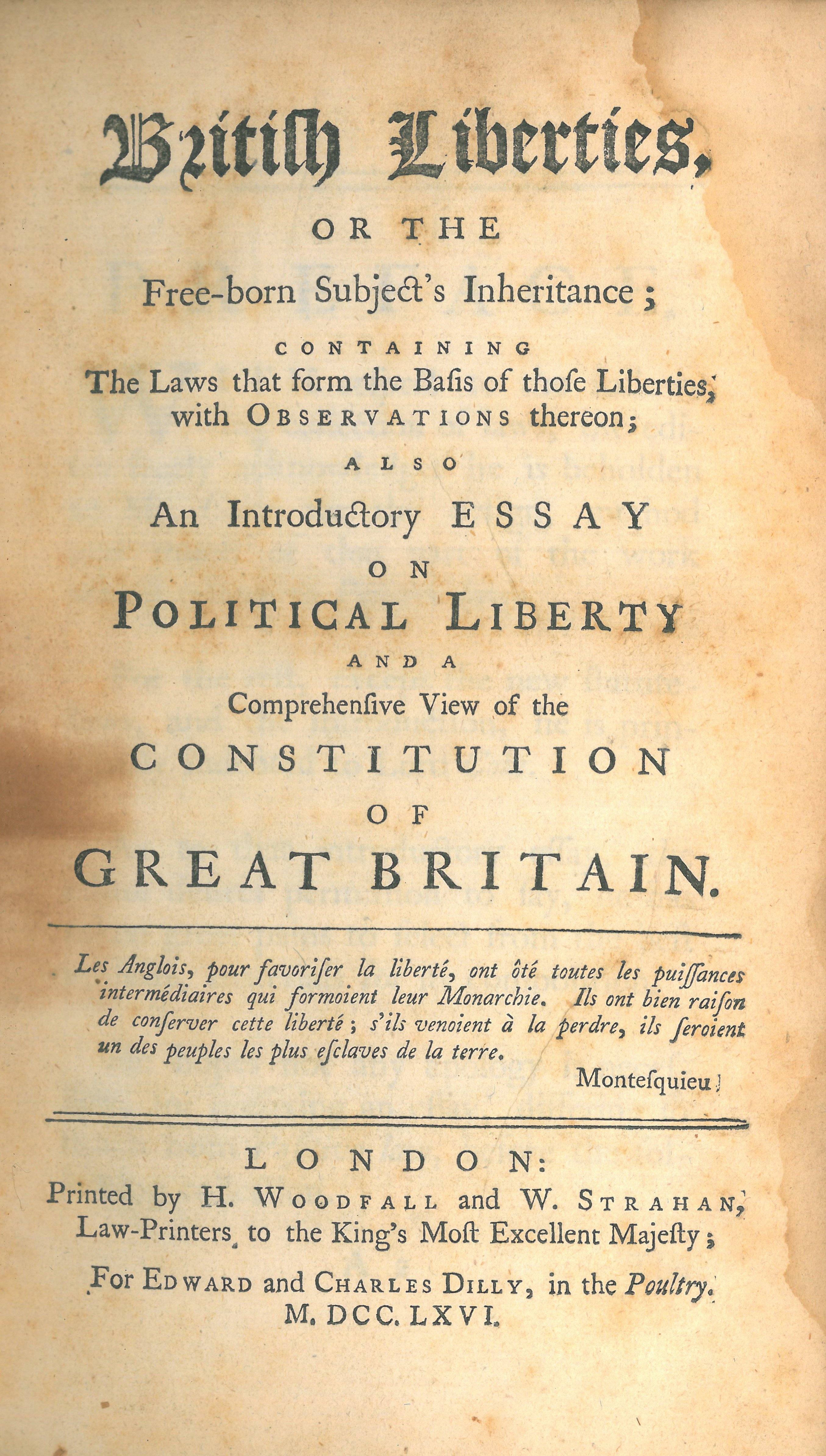 Title page of (1766) British Liberties, or the Free-born Subject's Inheritance; Containing the Laws that Form the Basis of those Liberties, with Observations thereon; also an Introductory Essay on Political Liberty and a Comprehensive View of the Constitution of Great Britain, London: Printed by H[enry Sampson] Woodfall and W[illiam] Strahan, Law-Printers to the King's Most Excellent Majesty; for Edward and Charles Dilly, in the Poultry OCLC: 65349667. The text of the title page is as follows: "British Liberties, / OR THE / Free-born Subject's Inheritance; / CONTAINING / The Laws that form the Baſis of thoſe Liberties; / with OBSERVATIONS thereon; / ALSO / An Introductory ESSAY / ON / POLITICAL LIBERTY / AND A / Comprehenſive View of the / CONSTITUTION / OF / GREAT BRITAIN. "Les Anglois, pour favoiſer la liberté, ont ôté toutes les puiſſances / intermediaries qui formoient leur Monarchie. Ils ont bien raiſon / de conſerver cette liberté ; s’ils venoient à la perdre, ils ſeroient / un des peoples les plus eſclaves de la terre. Monteſquieu. ["The English, to favour their liberty, have abolished all the intermediate powers of which their monarchy was composed. They have a great deal of reason to be jealous of this liberty; were they ever to be so unhappy as to lose it, they would be one of the most servile nations upon earth. Montesquieu. [Book II, chapter IV of M. de Secondat, Baron de Montesquieu (Charles-Louis de Secondat, Baron de La Brède et de Montesquieu); Thomas Nugent, transl. (1914) The Spirit of Laws, London: G[eorge] Bell & Sons OCLC: 660081132. "LONDON: / Printed by H. WOODFALL and W. STRAHAN, / Law-Printers to the King’s Moſt Excellent Majeſty; / For EDWARD and CHARLES DILLY, in the Poultry. / M. DCC. LXVI."